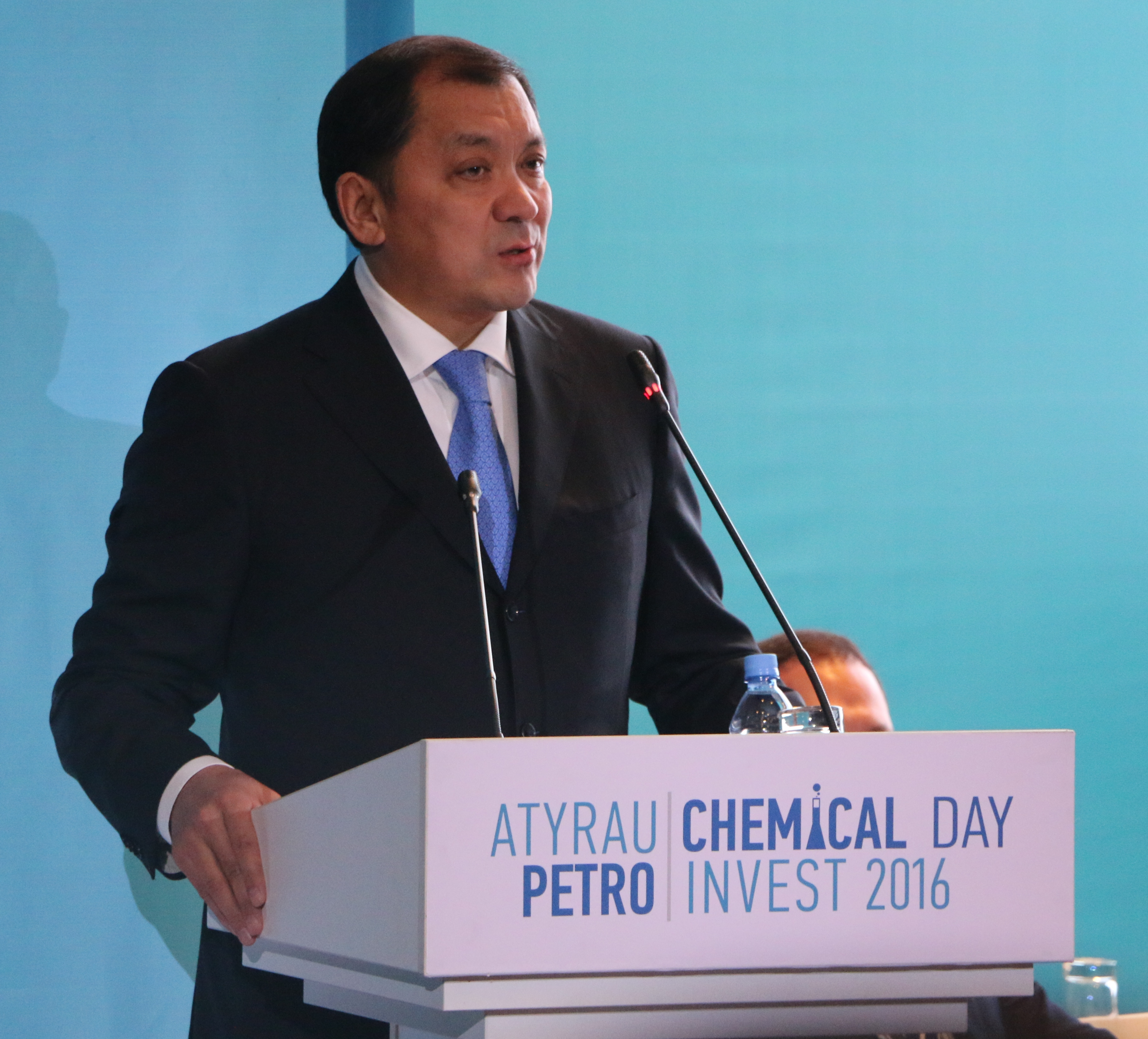 Nurlan Nogayev at Atyrau Petrochemical Day 2016